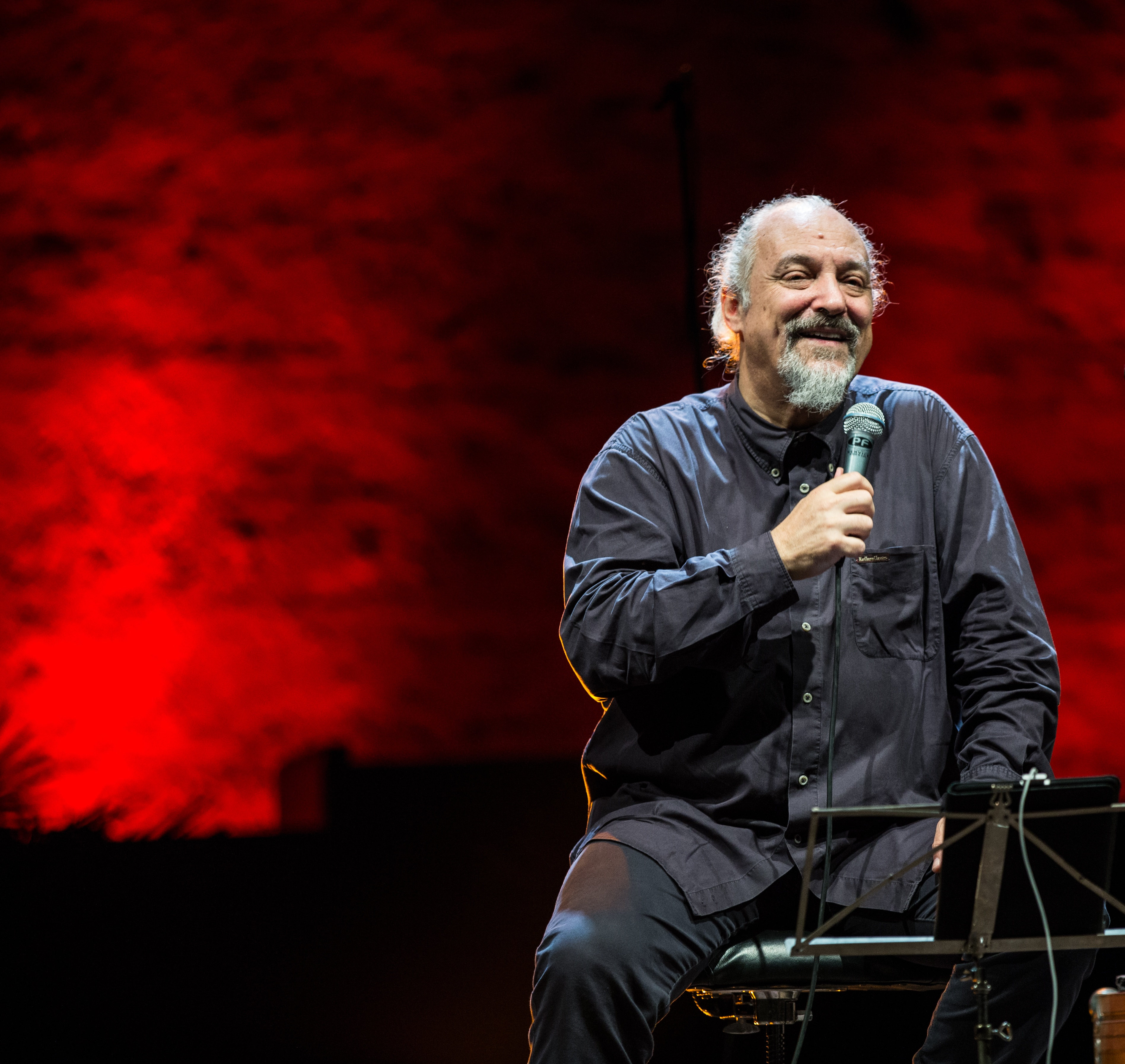 Eugenio Finardi in 2013